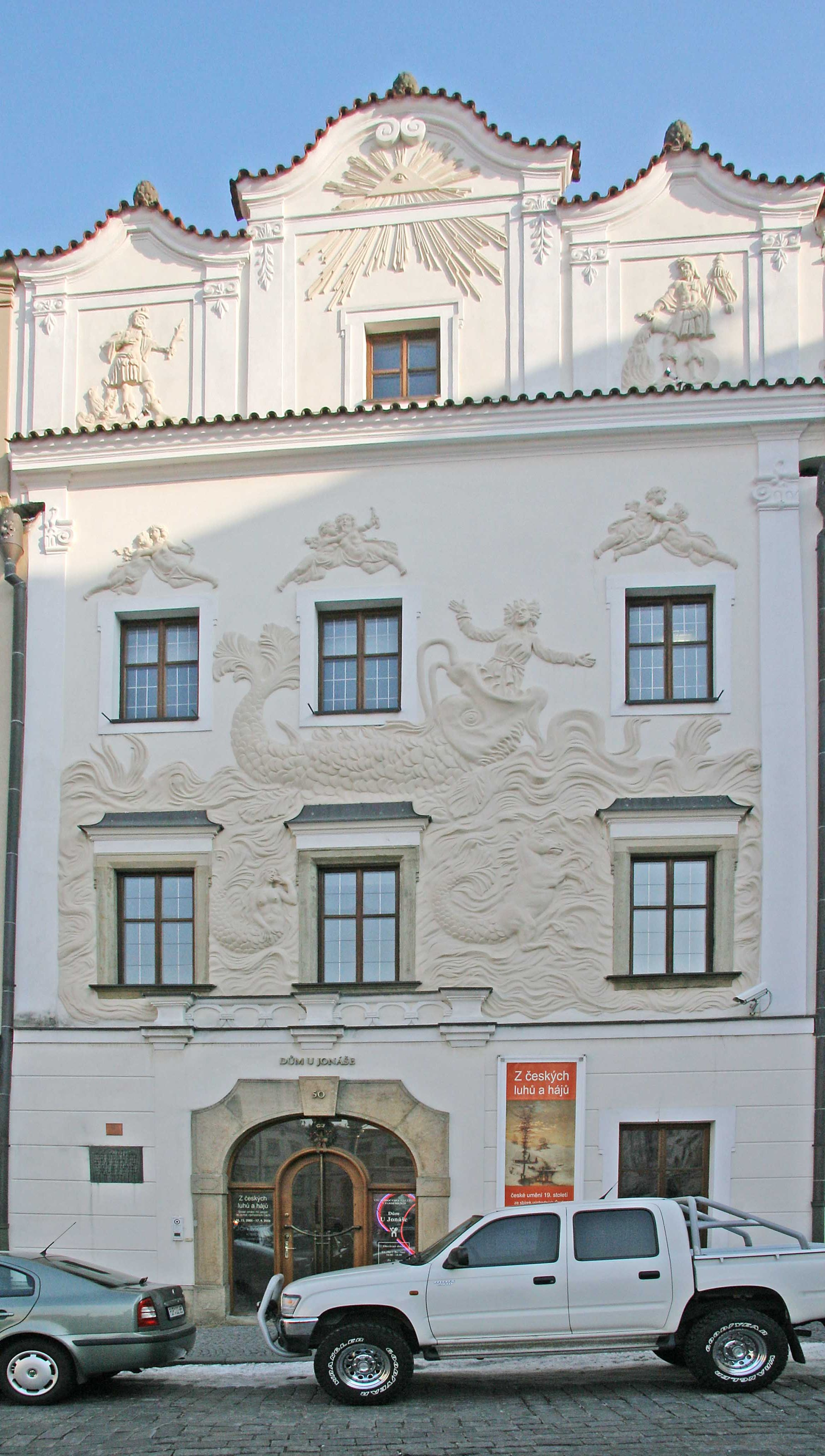 The House of Jonah on Pernštejn Square (Pernštýnské náměstí) in Pardubice, Czech Republic